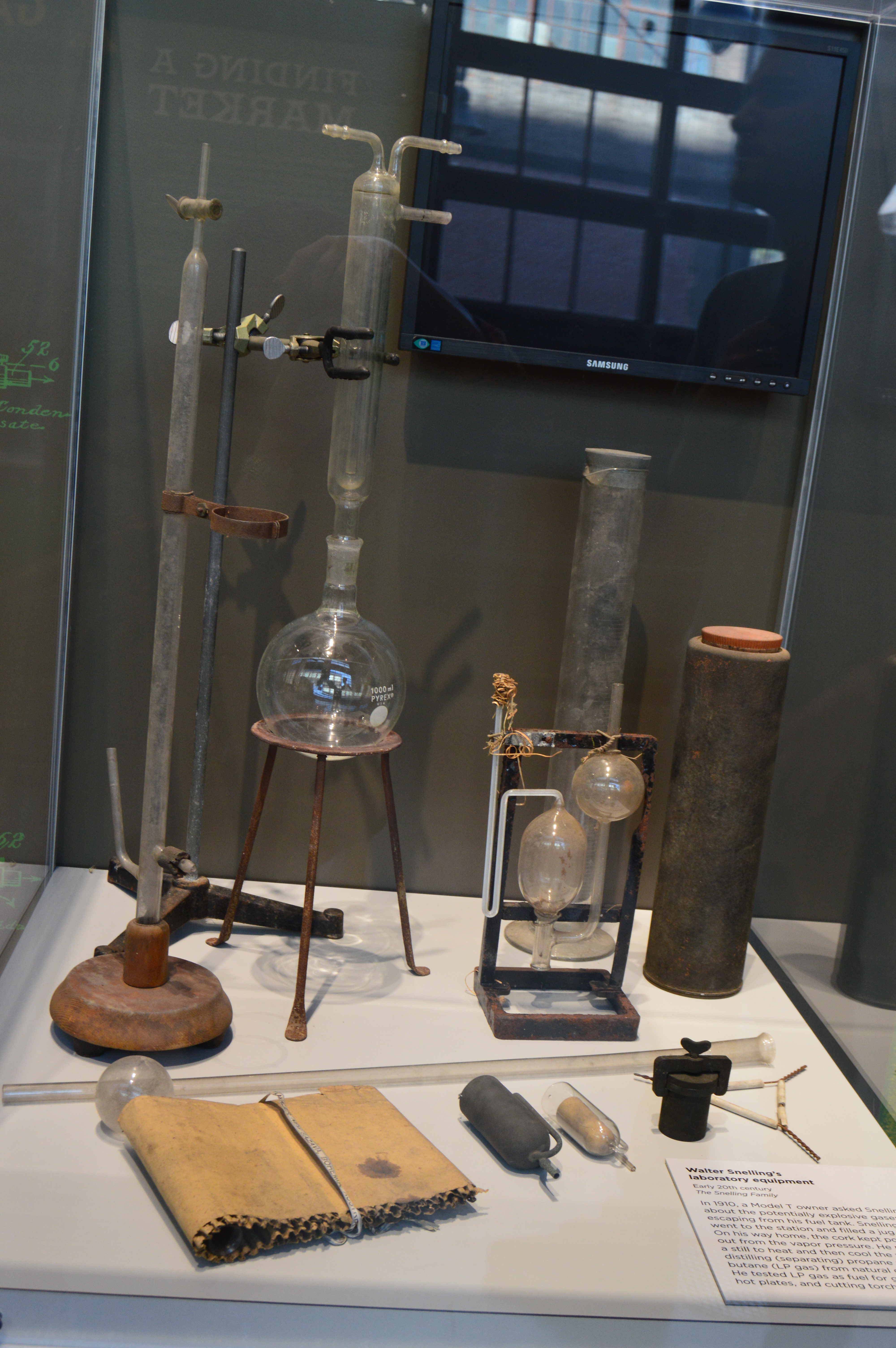 photo